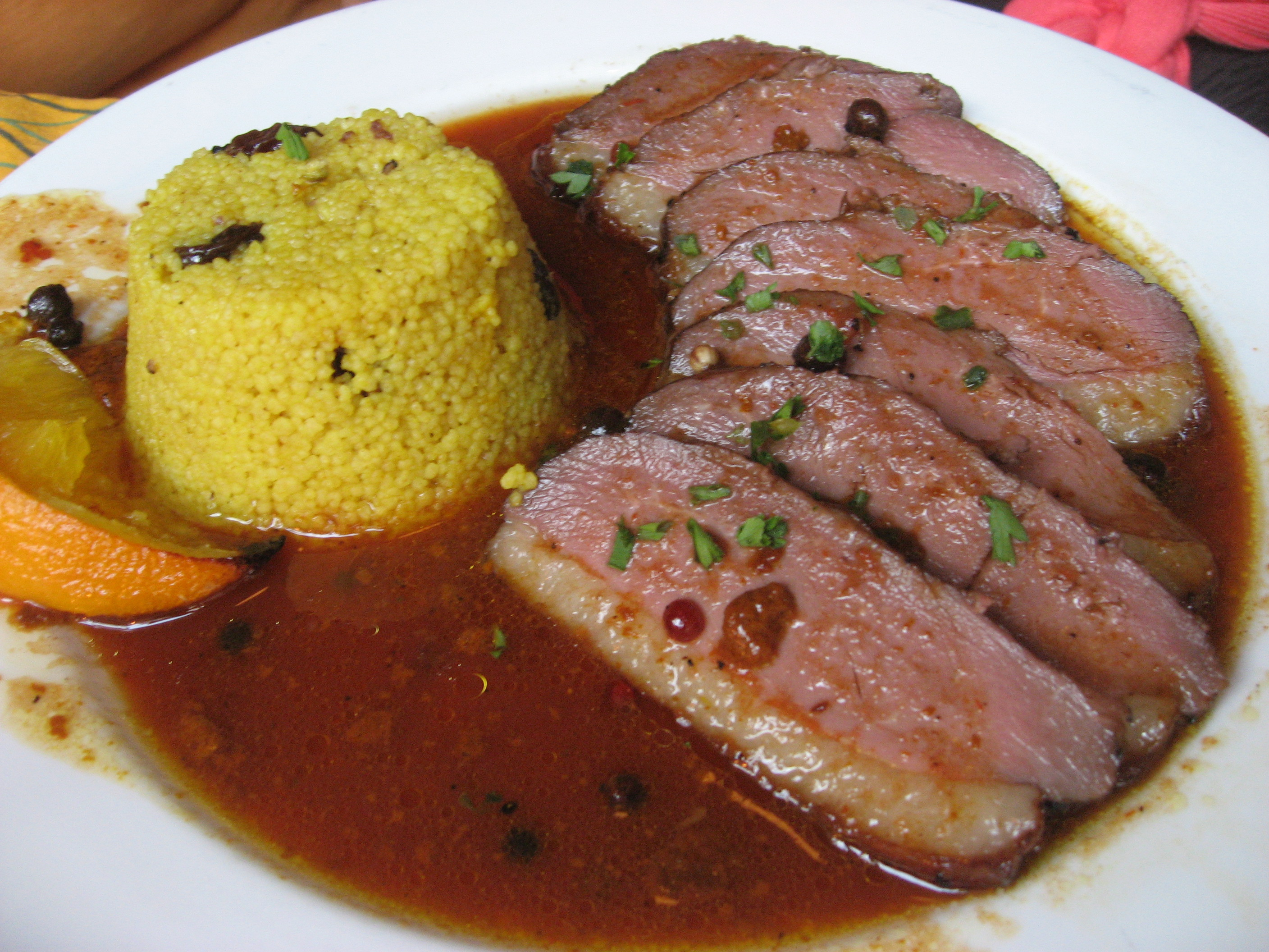 Duck magret